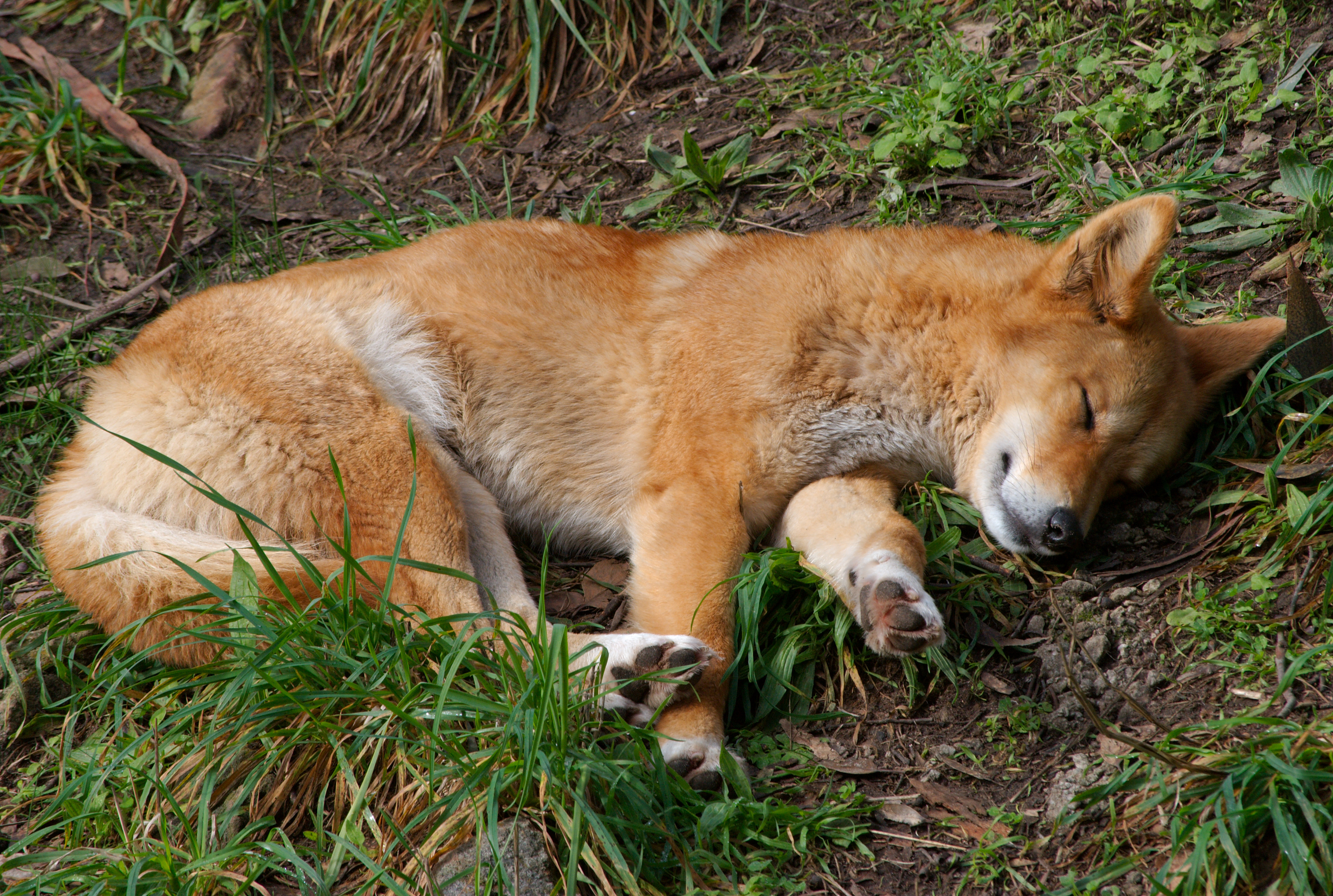 Canis lupus dingo sleeping, Cleland Wildlife Park, near Mount Lofty, Adelaide, South Australia